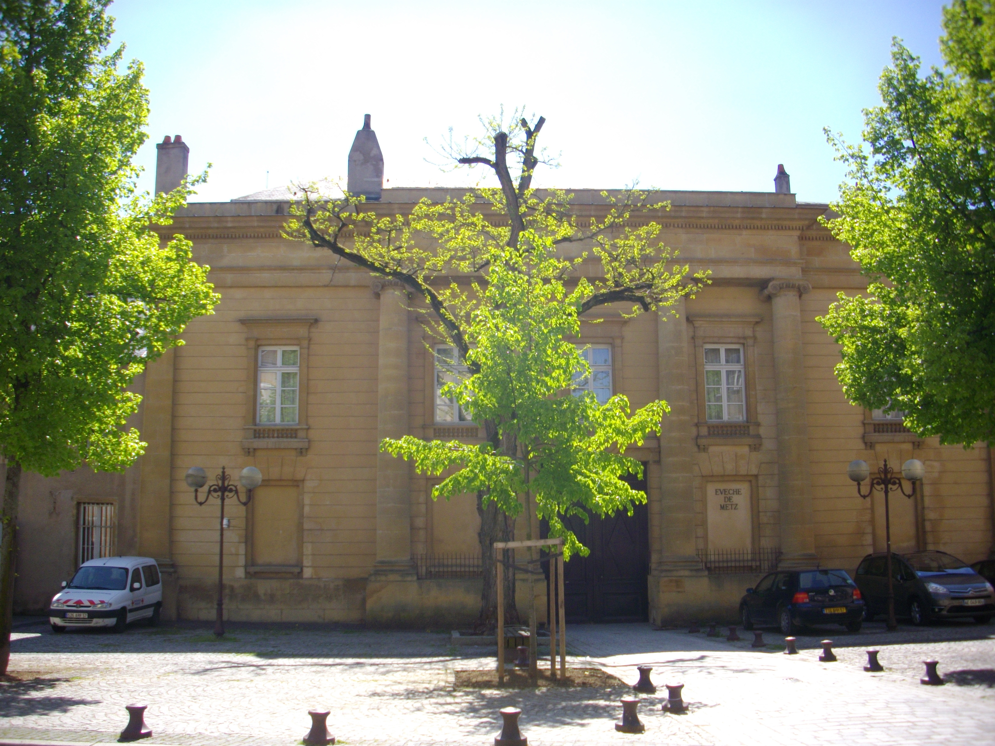 Entry of the bishopric palae of Metz (Moselle, France) .